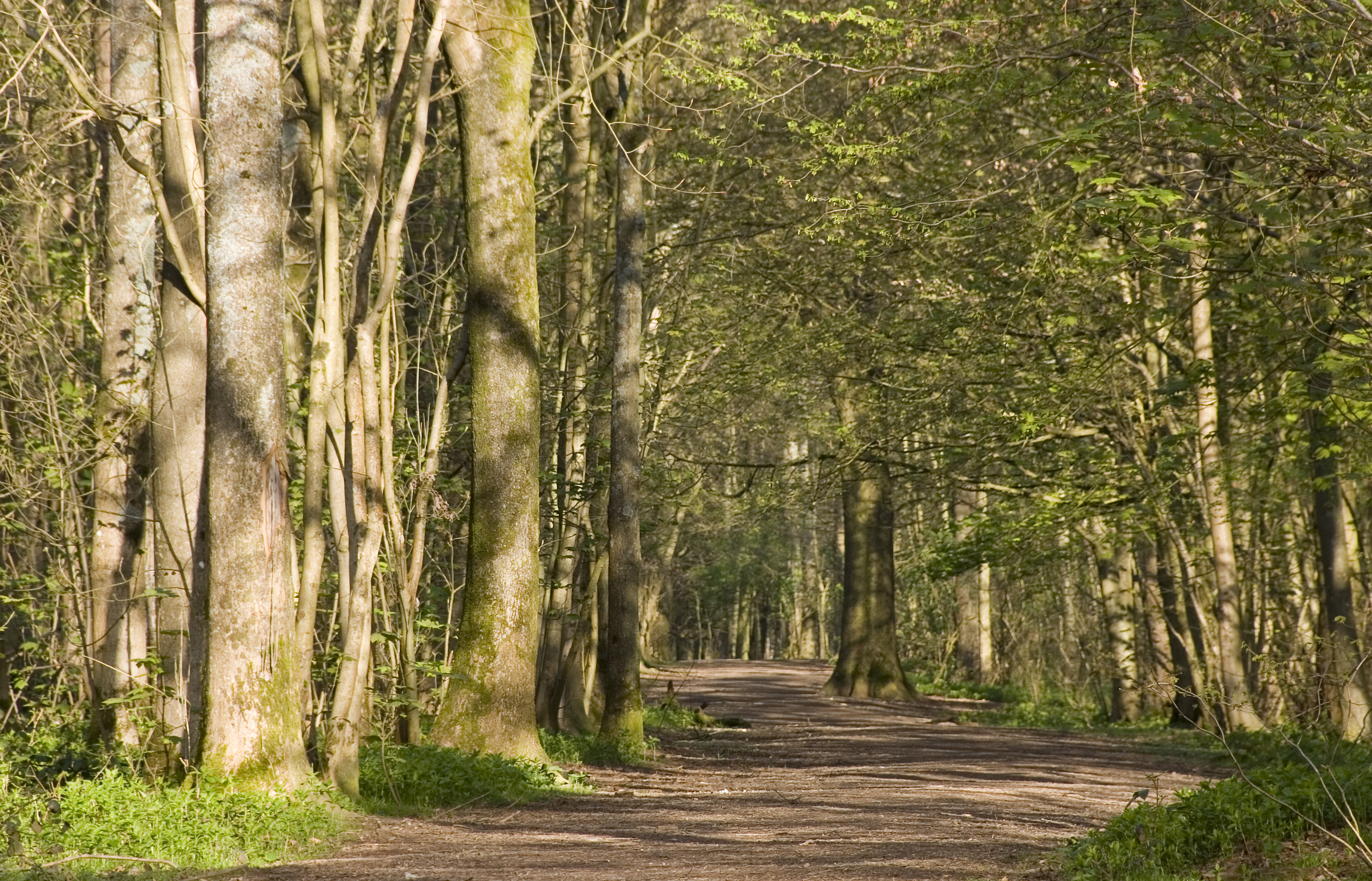 Early Spring Growth in Stanmer Park